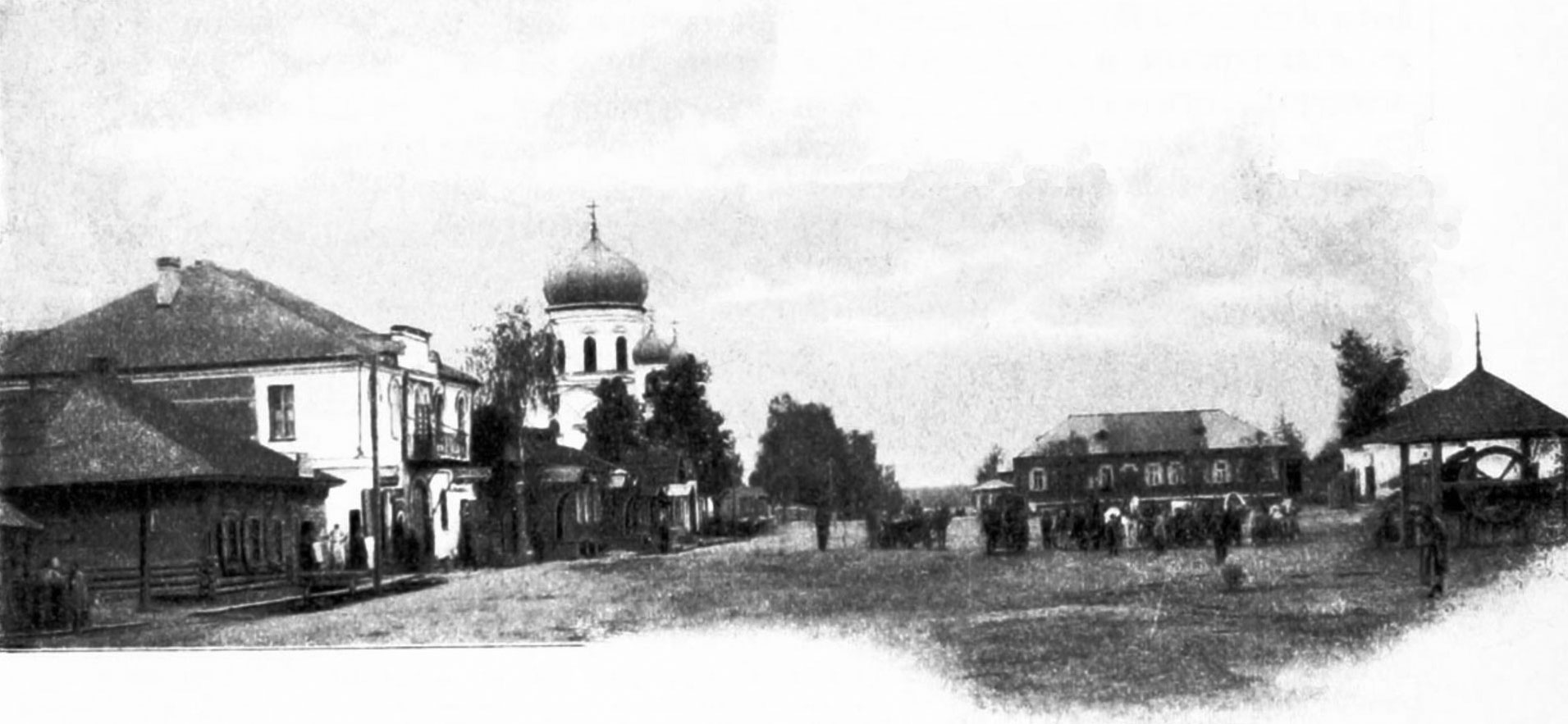 Church in Škłoŭ